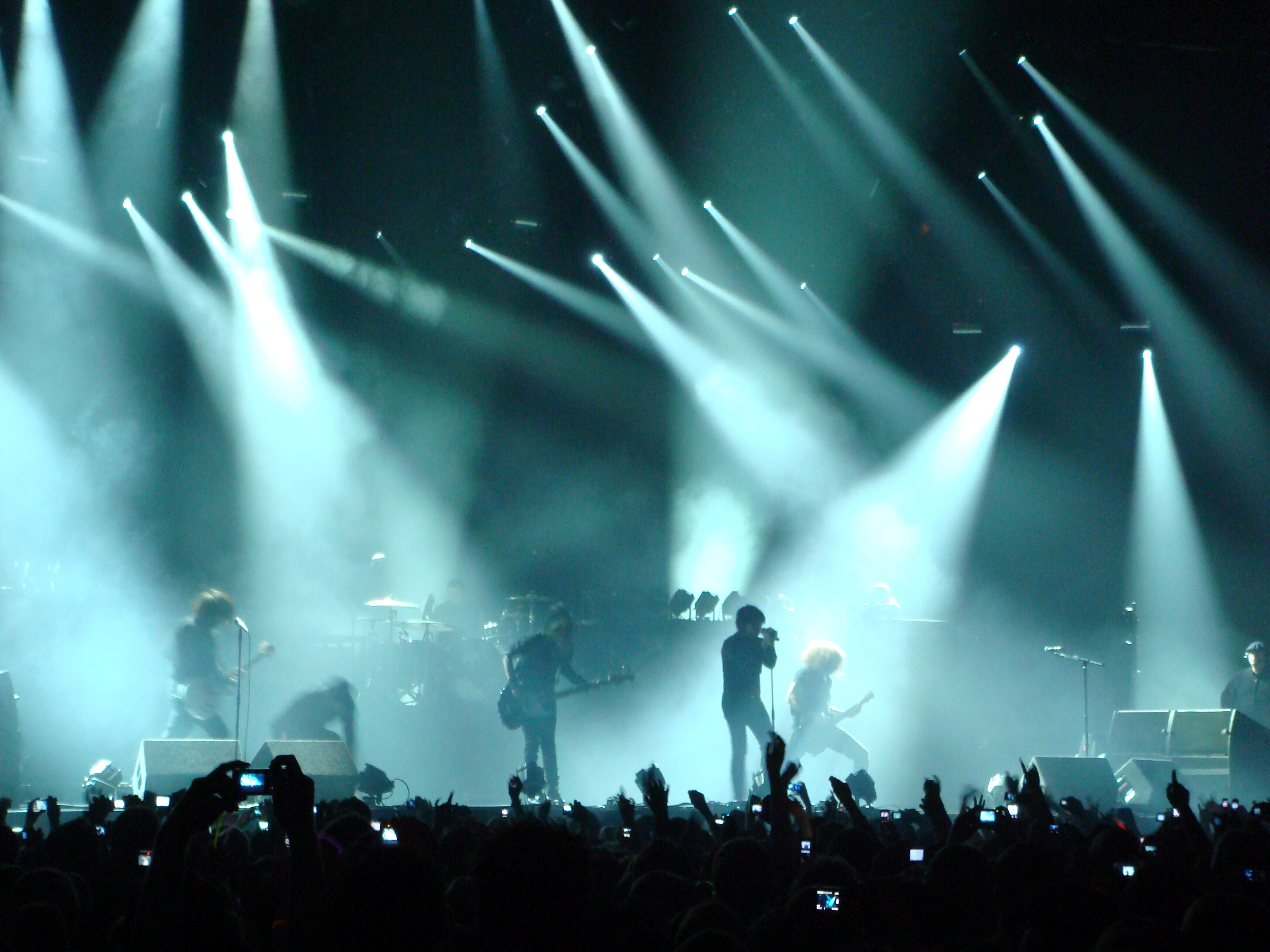 My Chemical Romance performing at Metro Radio Arena (Newcastle, England) on November 2007, during their The Black Parade World Tour.